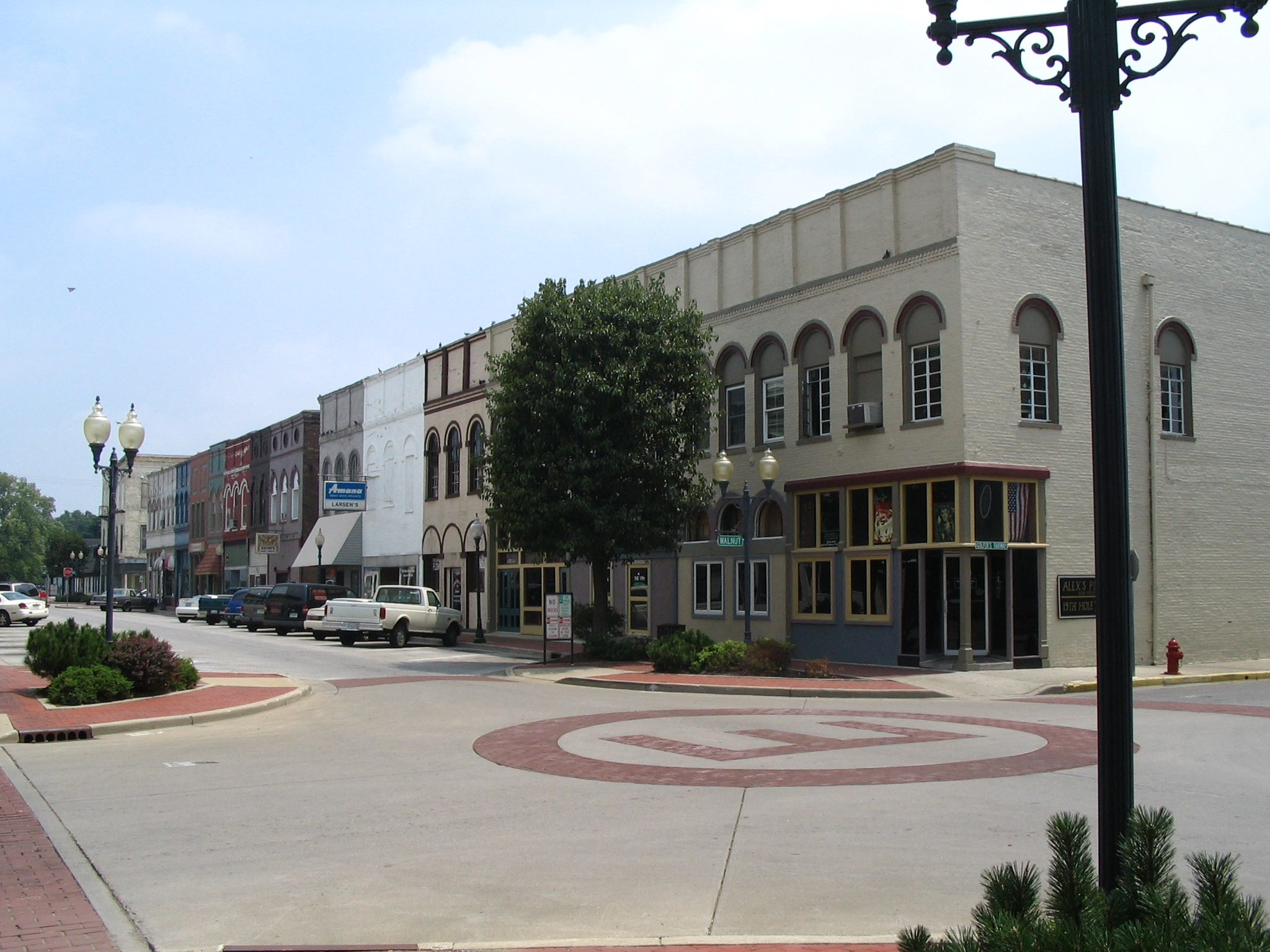 Looking East in downtown Edinburgh, Indiana. The main street buildings were all given a uniform look after being destroyed by fire in the 1870's.